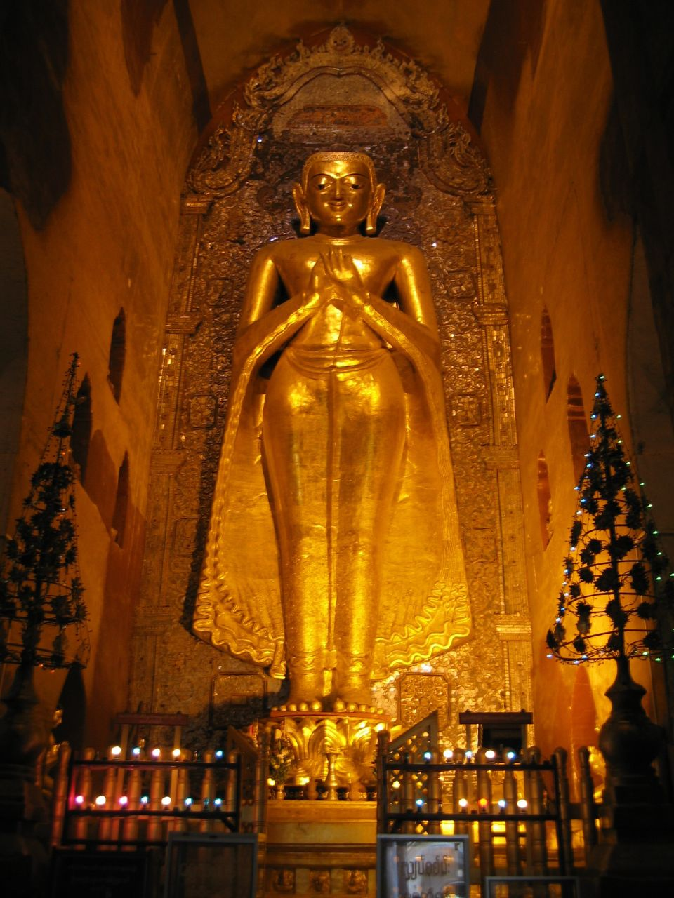 the statue of Kakusandha Buddha, Ananda Temple in Bagan, Myanmar.